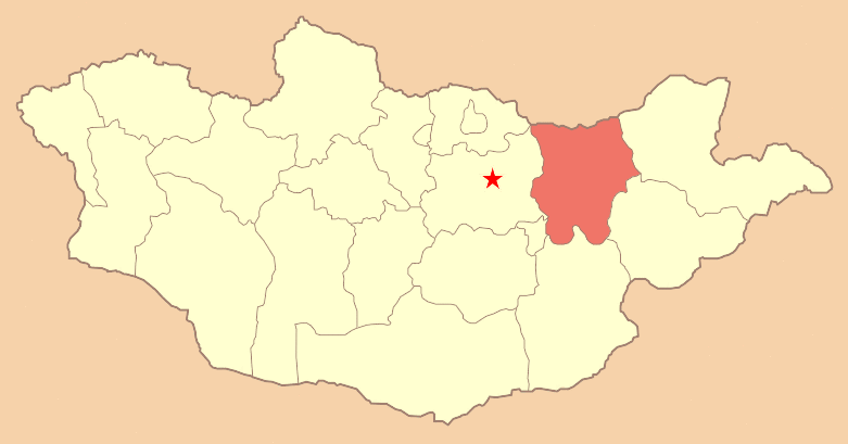 Map of Mongolia with Khentii Aimag highlighted.